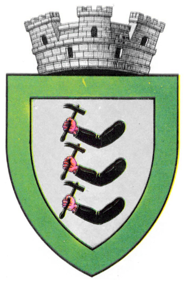 Interwar coat of arms of Petroșeni, Hunedoara County, Kingdom of Romania.